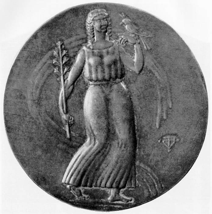 Woman avec flower and bird